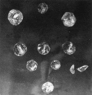 Photo № 119. Topazes found at the mine. Sokolov's investigation: Nos. 7, 8 & 9. Some of the topazes from the necklaces belonging to the Grand Duchesses.